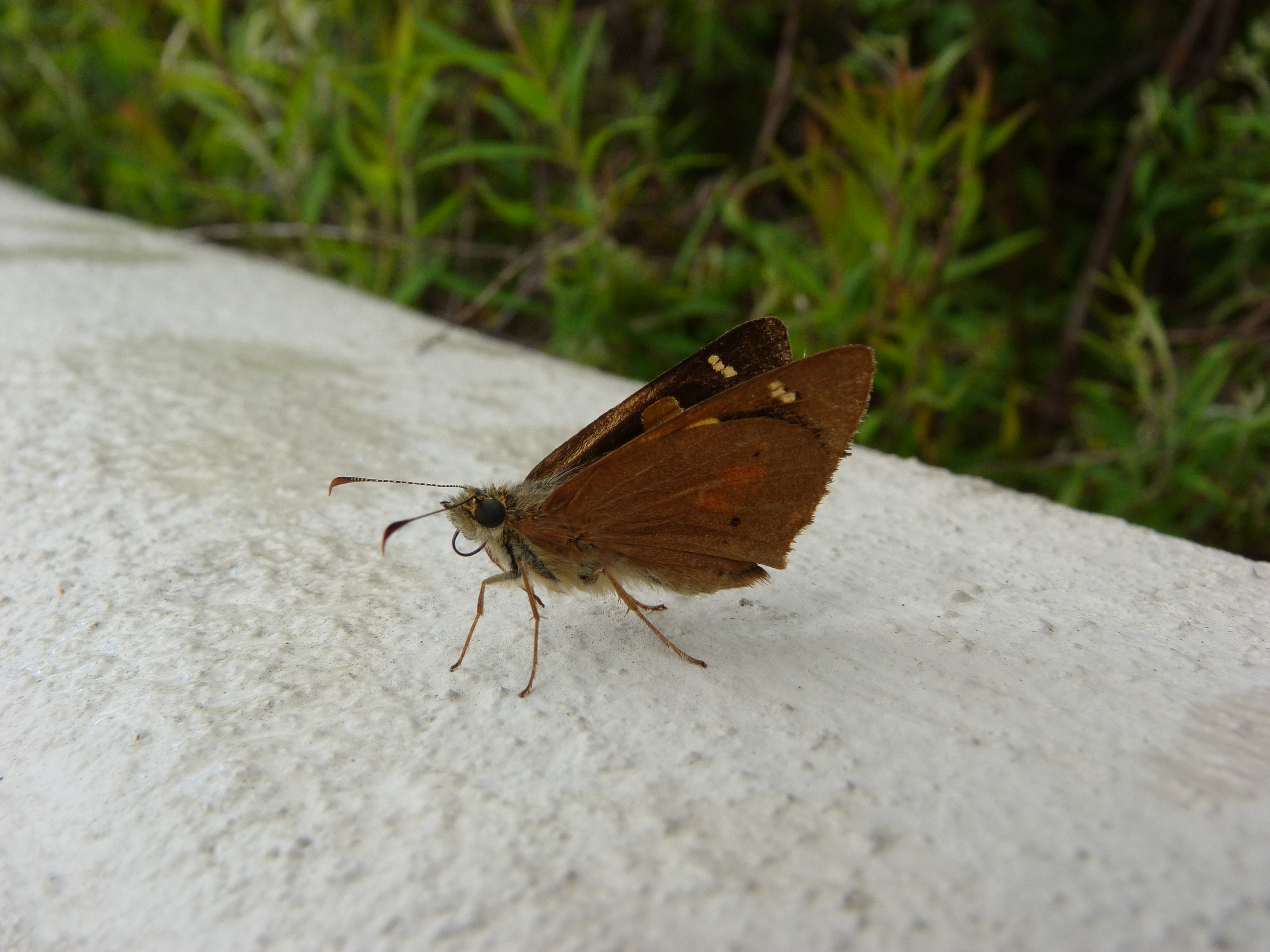 Hesperilla idothea (Miskin, 1889), Katoomba, NSW, 23 January 2011